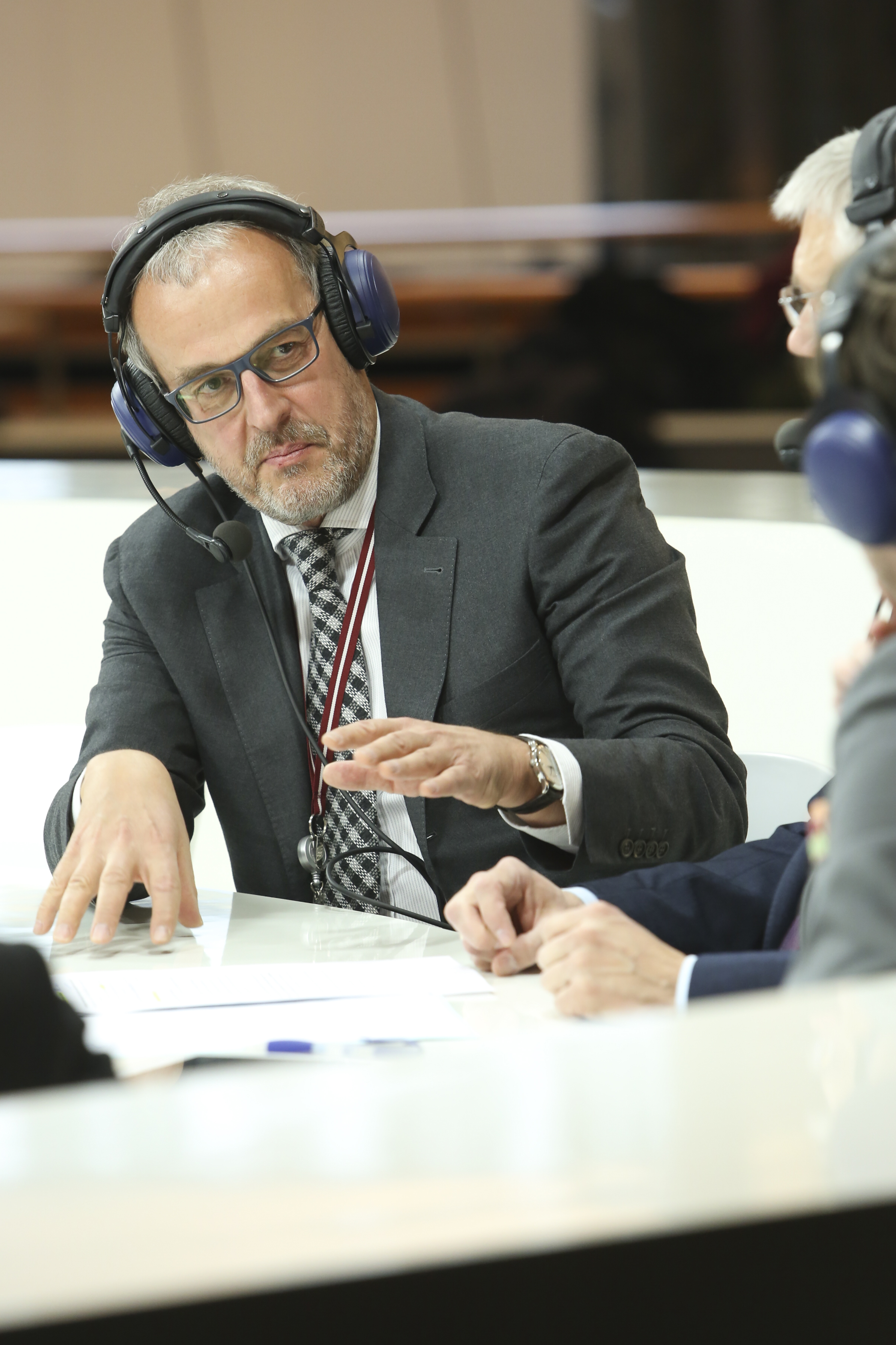 Euranet Plus, the leading radio network for EU news, hosted a Citizens’ Corner debate on the digital rights of EU citizens at the European Parliament in Brussels on January 20. The debate was jointly produced by Euranet Plus and Latvijas Radio, a member of the Euranet Plus network. The bilingual debate was moderated by journalist Artjoms Konohovs of Latvijas Radio (in Latvian) and Brian Maguire of the Euranet Plus News Agency in Brussels (in English). The debate also featured students of the Euranet Plus campus radio network from Poland (Radio Kampus, Warsaw) and Finland (Radio Moreeni, Tampere). Guests: Part 1 of 2 | Latvian | | moderator Artjoms Konohovs | guests: - Krišjanis Karinš, MEP, Latvia, Group of the European People’s Party (Christian Democrats), www, @krisjaniskarins - Roberts Zile, MEP, Latvia, European Conservatives and Reformists Group, www, @robertszile - Zanda Kalnina-Lukaševica, Parliamentary Secretary, Latvian Ministry of Foreign Affairs, @ZKLukasevica Get all the details and the video as well as audio recordings on our dedicated web page at